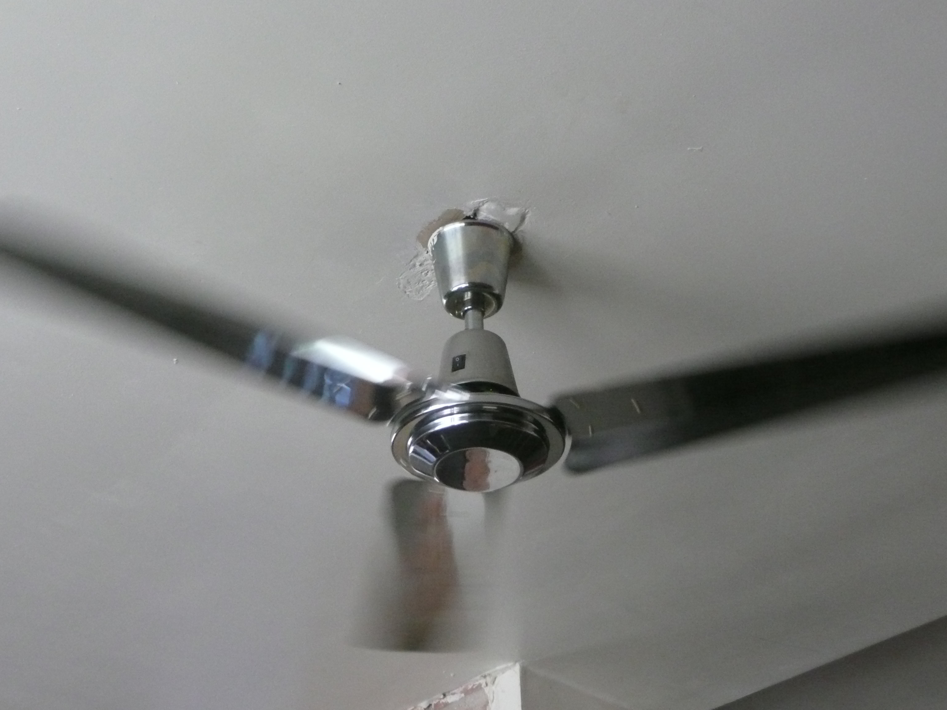 Ceiling fan blades (Albi, 2010). Note the clever location of the switch. Thanks to Dominique Grave for drawing my attention to this remarkable singularity.